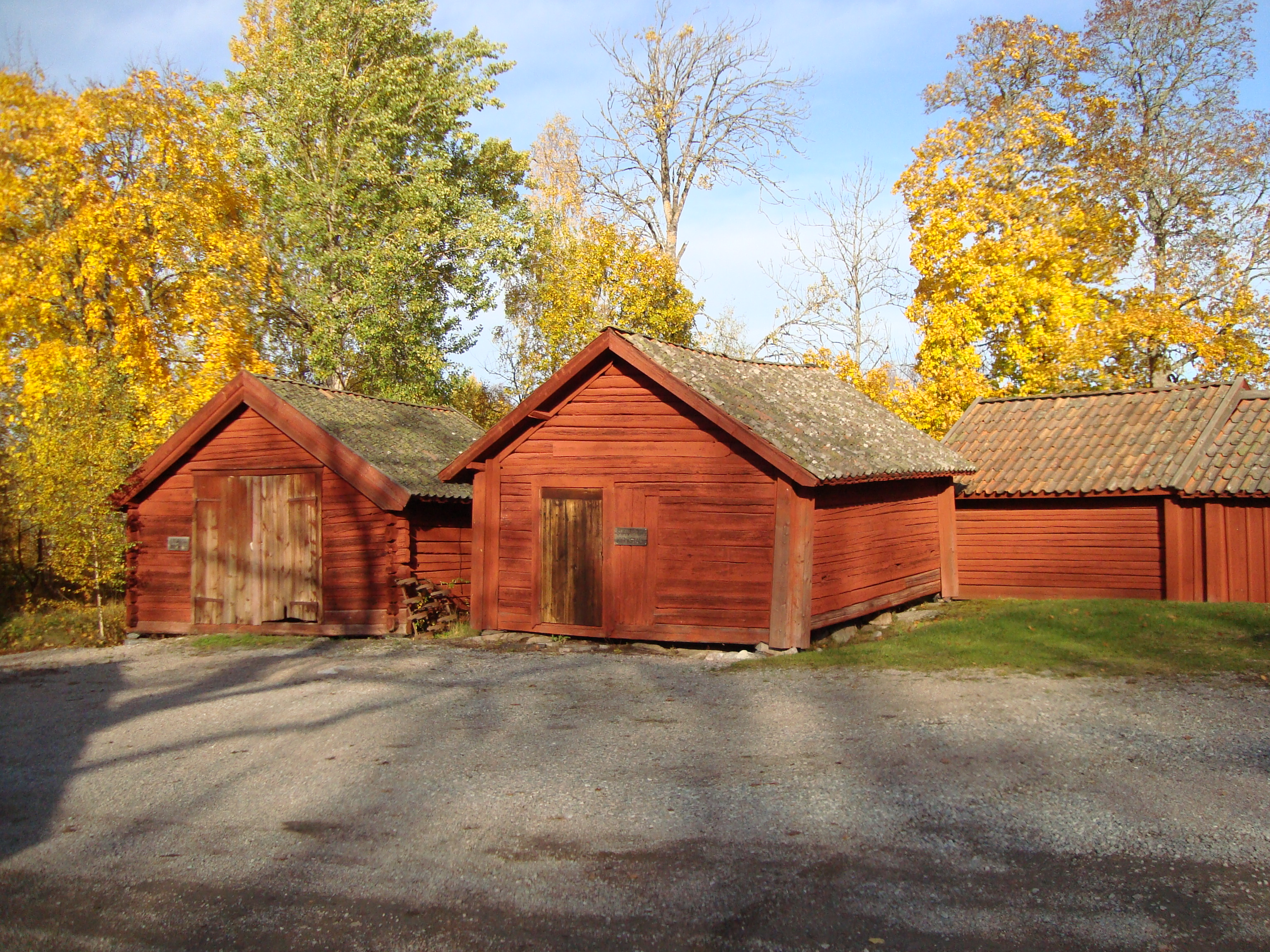 Old stables at the Church of Fläckebo, Fläckebo Parish, Sala Municipality, Västmanland County, Västmanland, Sweden.